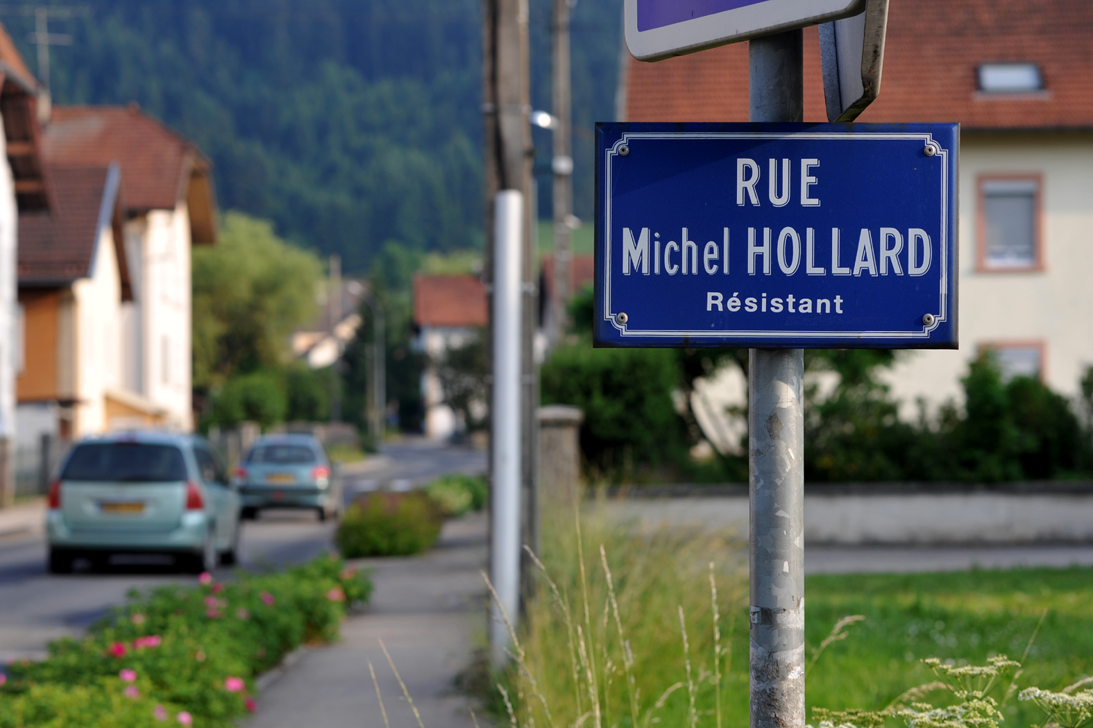 Rue Michel Hollard in Montlebon; Doubs, France.